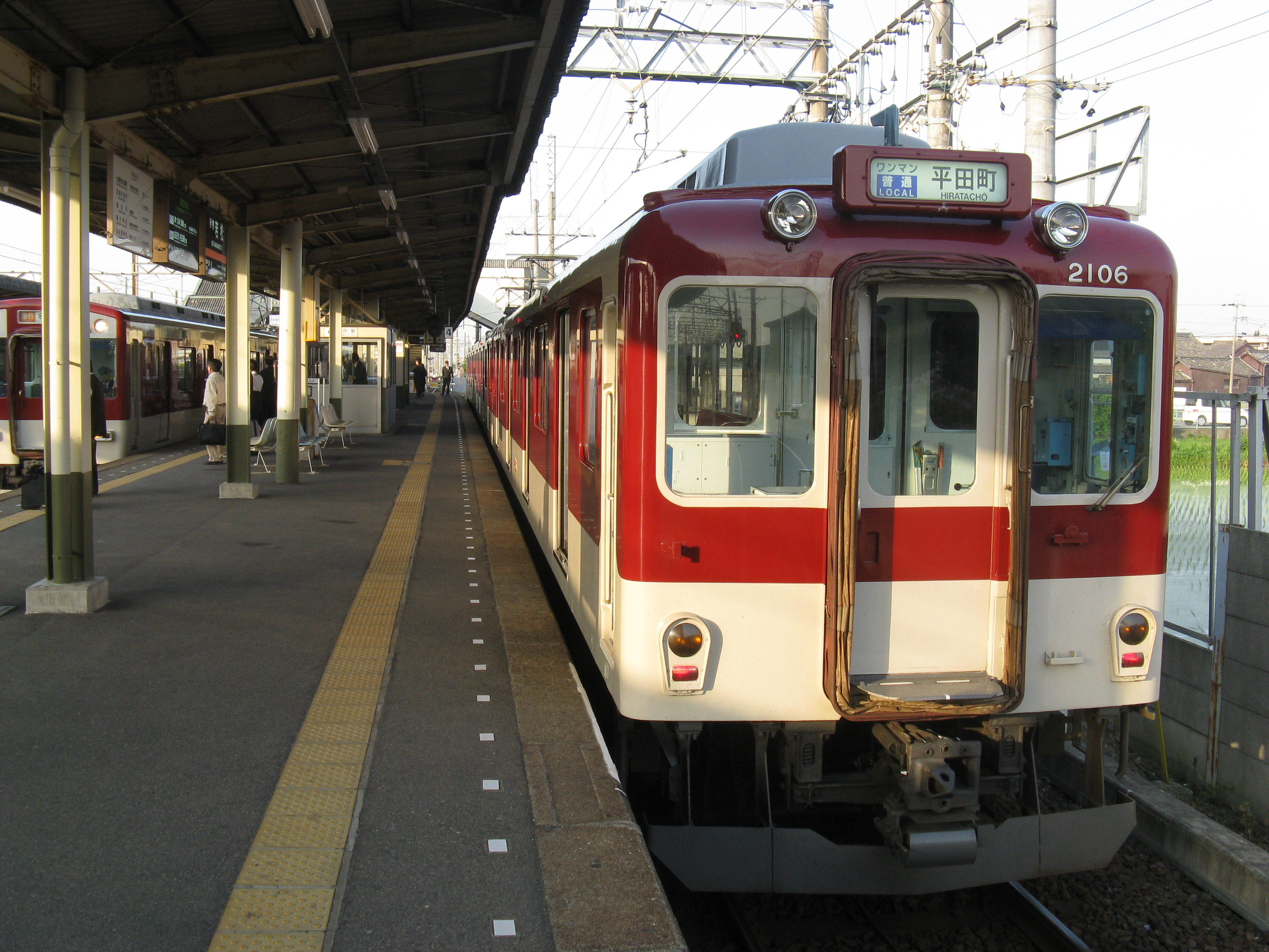 Kintetsu train at Ise-Wakamatsu Station, the origin of the Suzuka Line